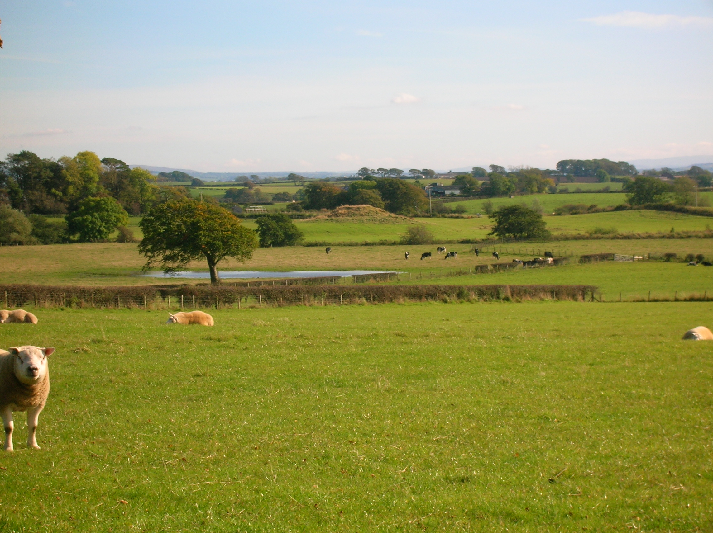 A view of the possible Moot hill called Hutt Knowe at Bonshaw Farm near the Glazert Water, North Ayrshire, Scotland.